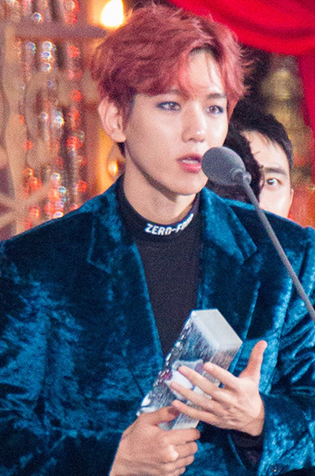 Byun Baek-hyun at 8th Melon Music Awards on November 19, 2016.